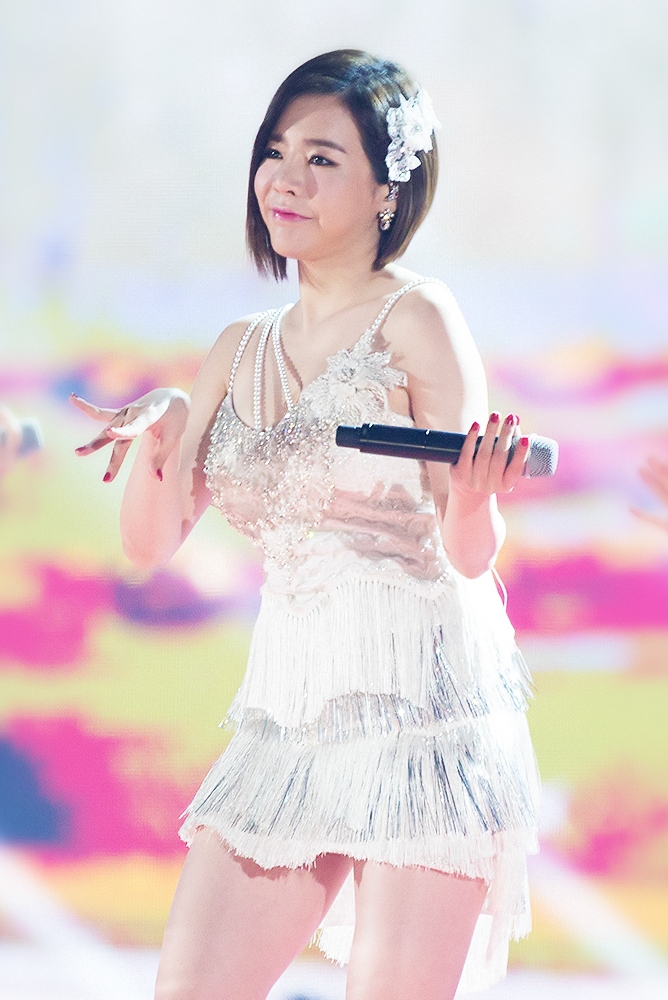 Sunny at KBS Gayo Daechukje December 30, 2015.